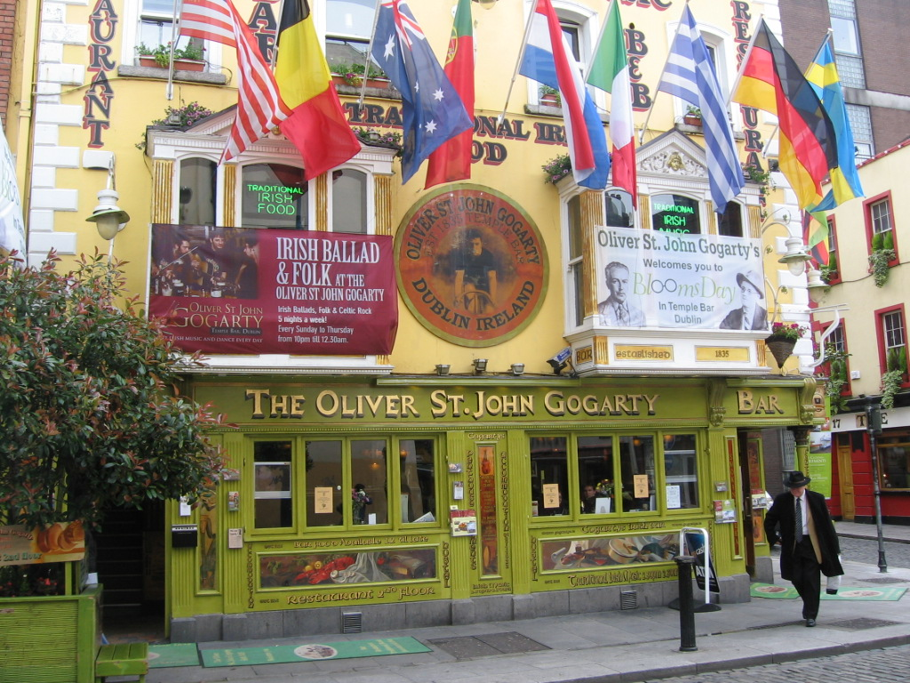 gogarty pub dublin on bloomsday